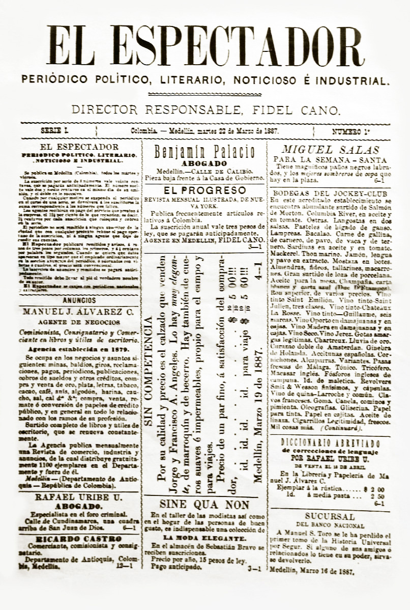 First issue of Colombian newspaper El Espectador, dated 22 March 1887.